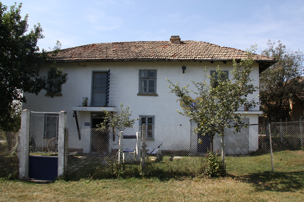 House museum of Yanaki Manasiev Museum in Antonovo, Bulgaria